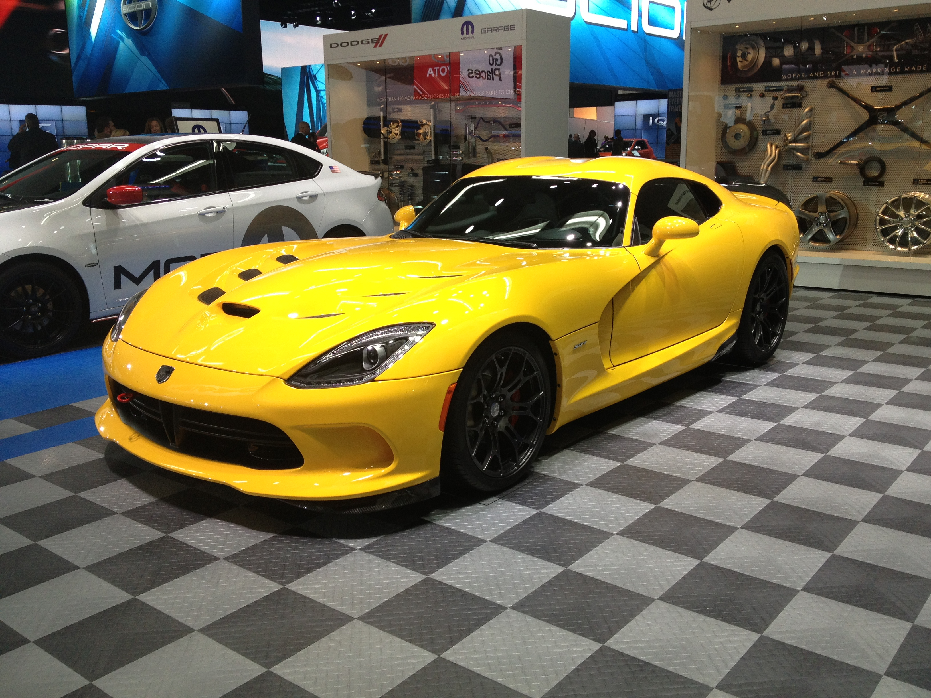 Una SRT Viper gialla 2013 North American International Auto Show Detroit, Michigan